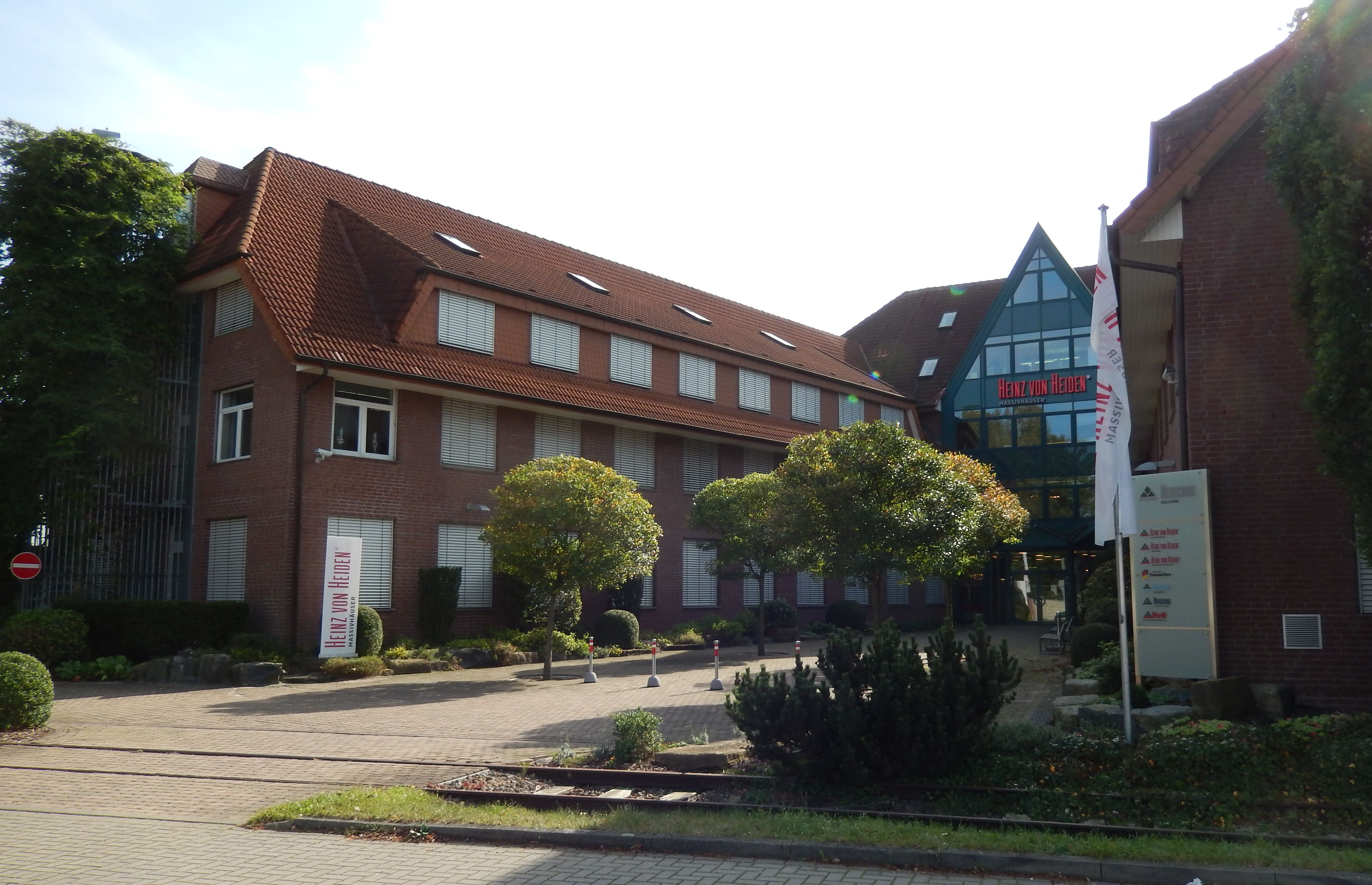 Office building of Heinz von Heiden Massivhäuser in Isernhagen, Germany.